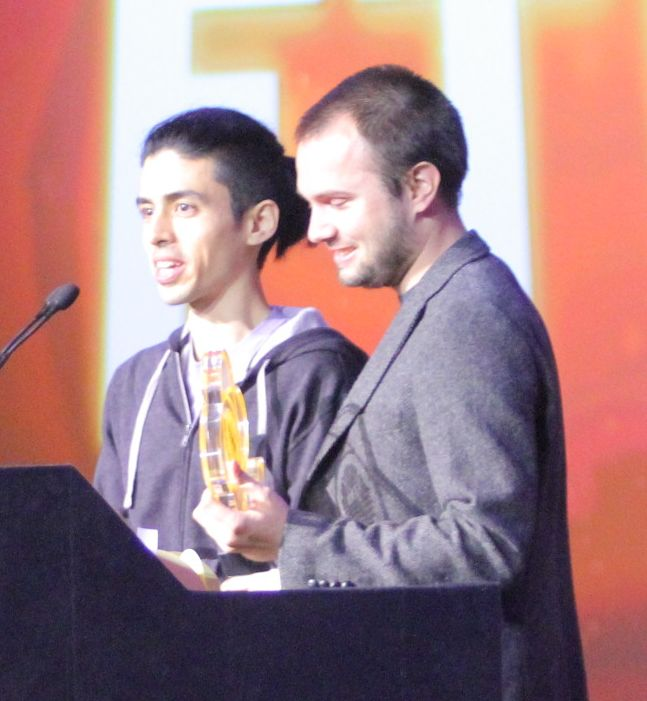 Subset Games (Justin Ma, left, and Matthew Davis) receiving the 2013 Independent Games Festival award for Design at the Game Developers Conference. This file has been extracted from another file: Subset Games at IGF 2013 GDC.jpg